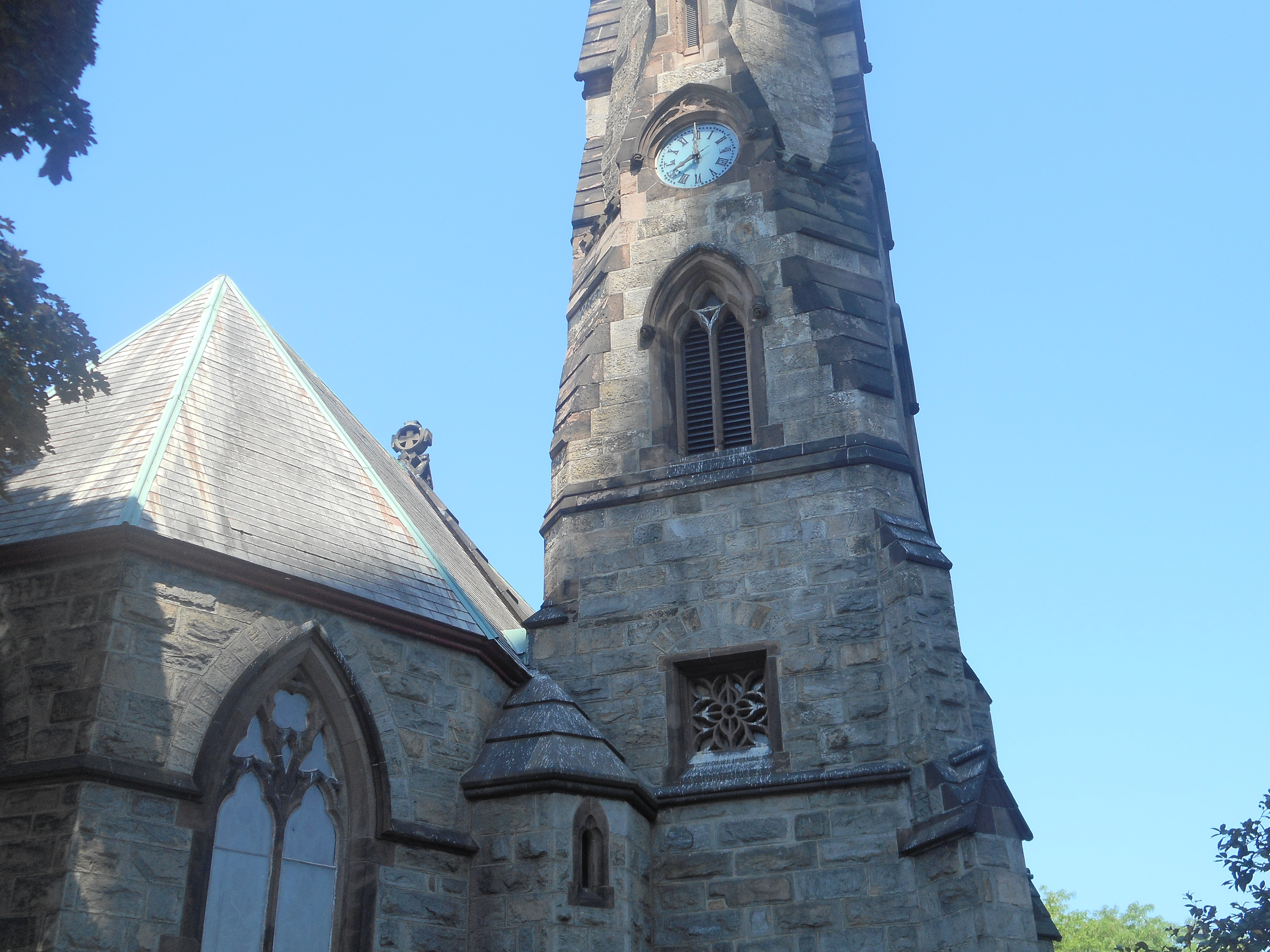 Image related to the Trinity-Saint Paul Episcopal Church of New Rochelle, New York. Further details and a rename are 100% Guaranteed.